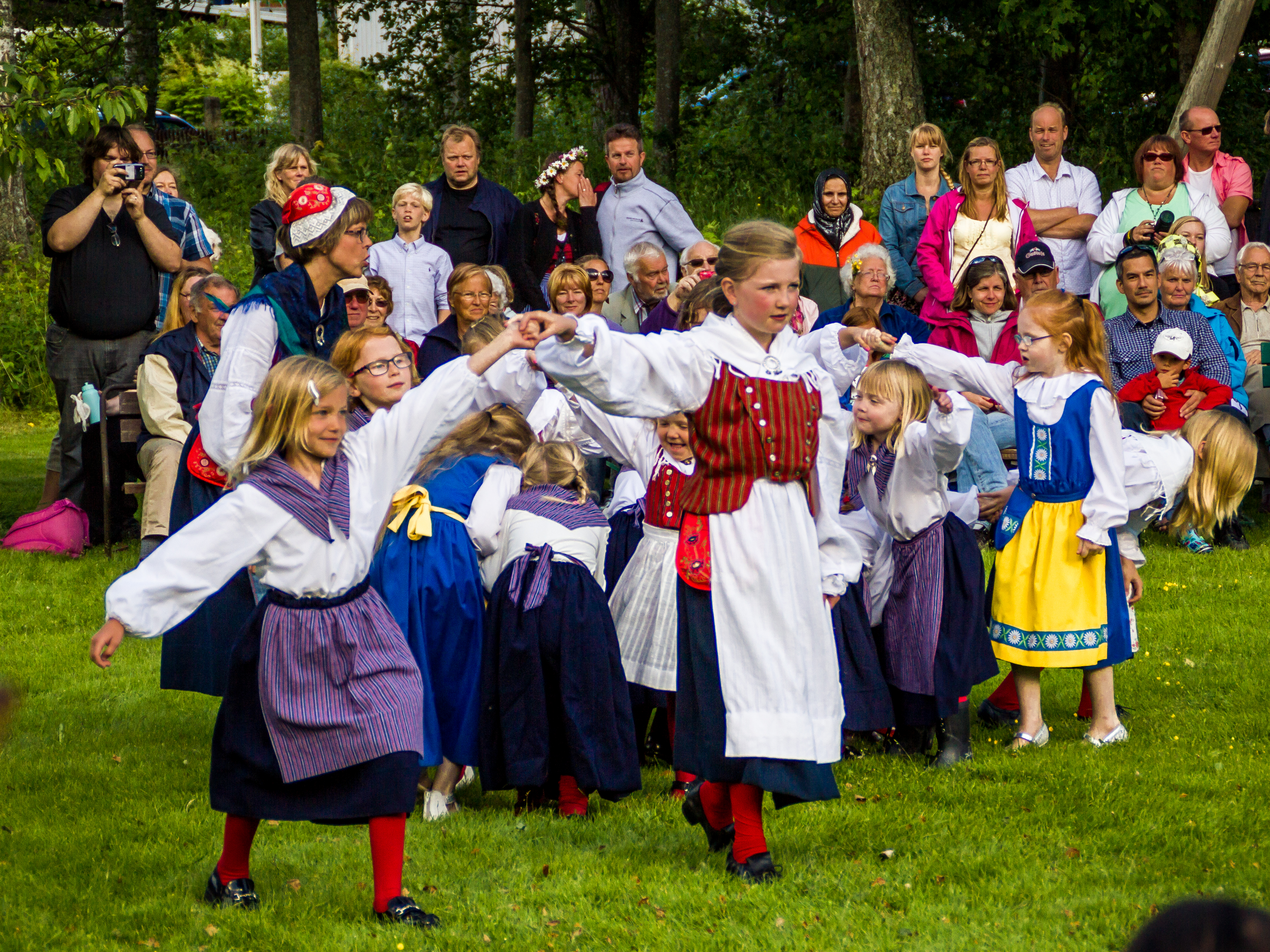 "Little midsummer", a celebration according to tradition, the day before Midsummer Eve at local heritage centre Åsgårdarna, Säter, Dalarna County, Sweden. Performance by Säter folk dance guild.